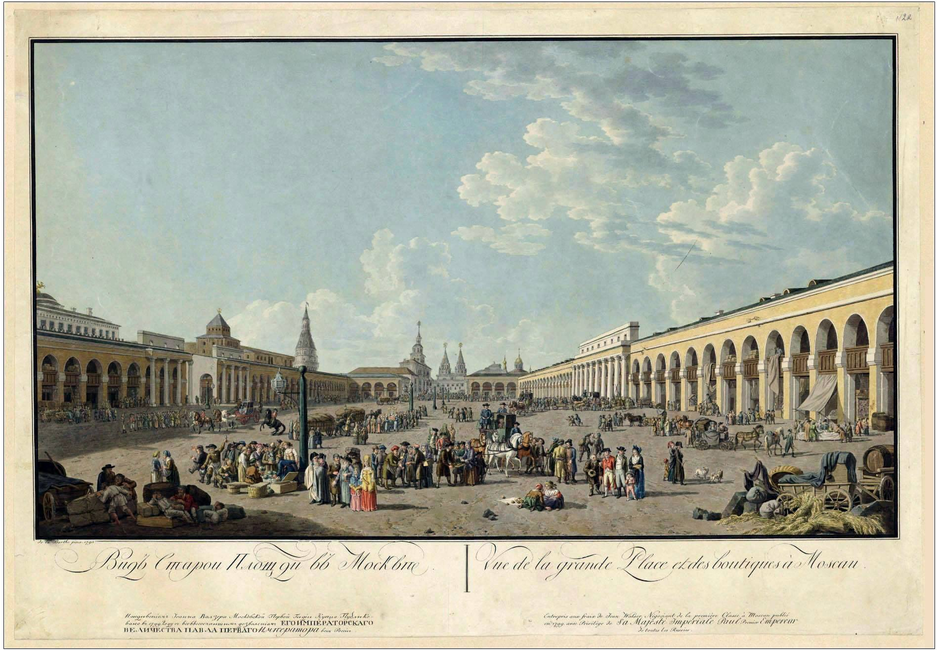 Coloured plate 1 from the definitive Twelve Views of Moscow by De la Barthe. This is the northern half of present-day Red Square, looking to north-west. The Kremlin wall (and adjacent fortifications, later demolished) on the left is obscured by a shopping arcade building. The arcade was later demolished, too, making way for present-day open space.